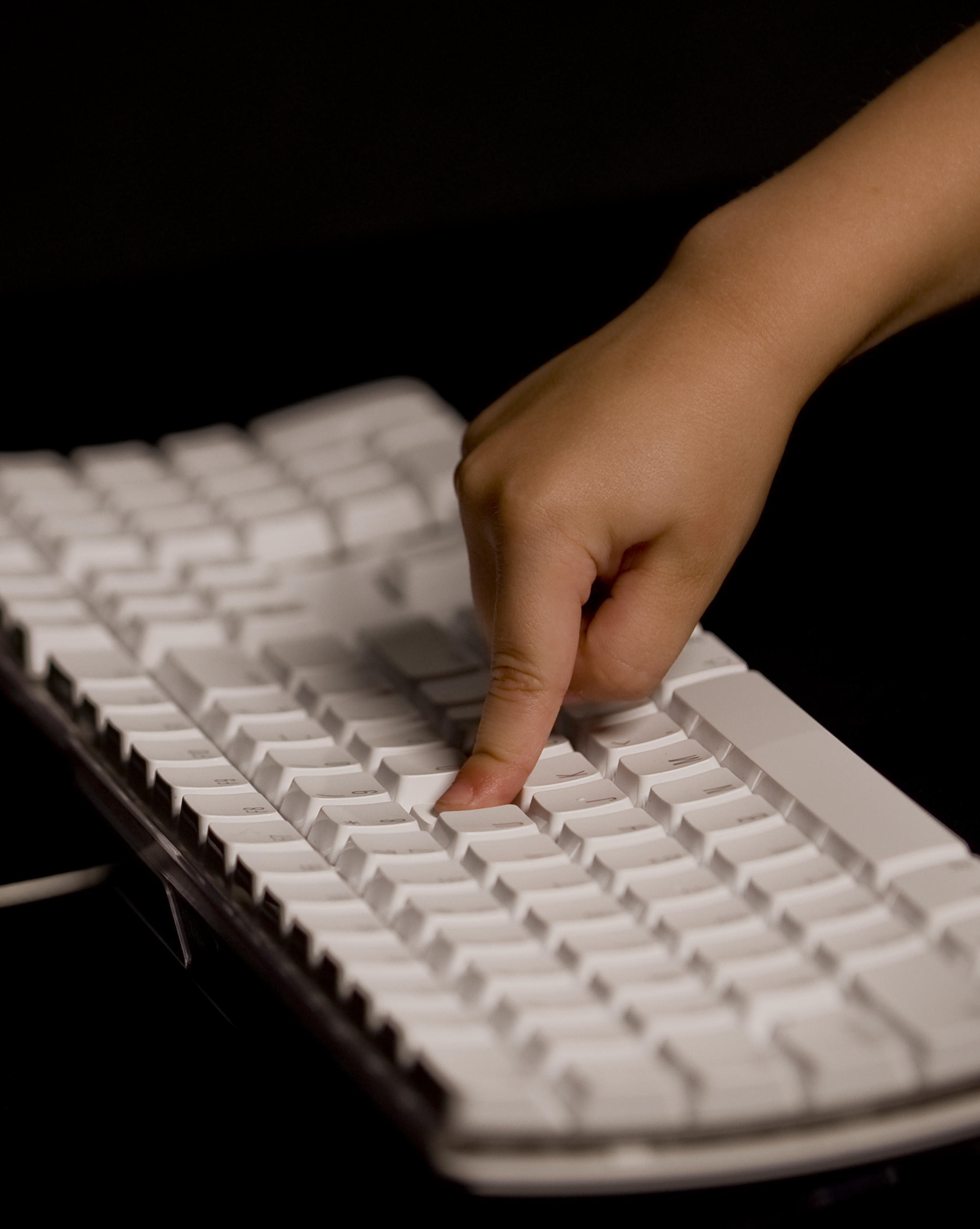 An alphanumeric computer keyboard.